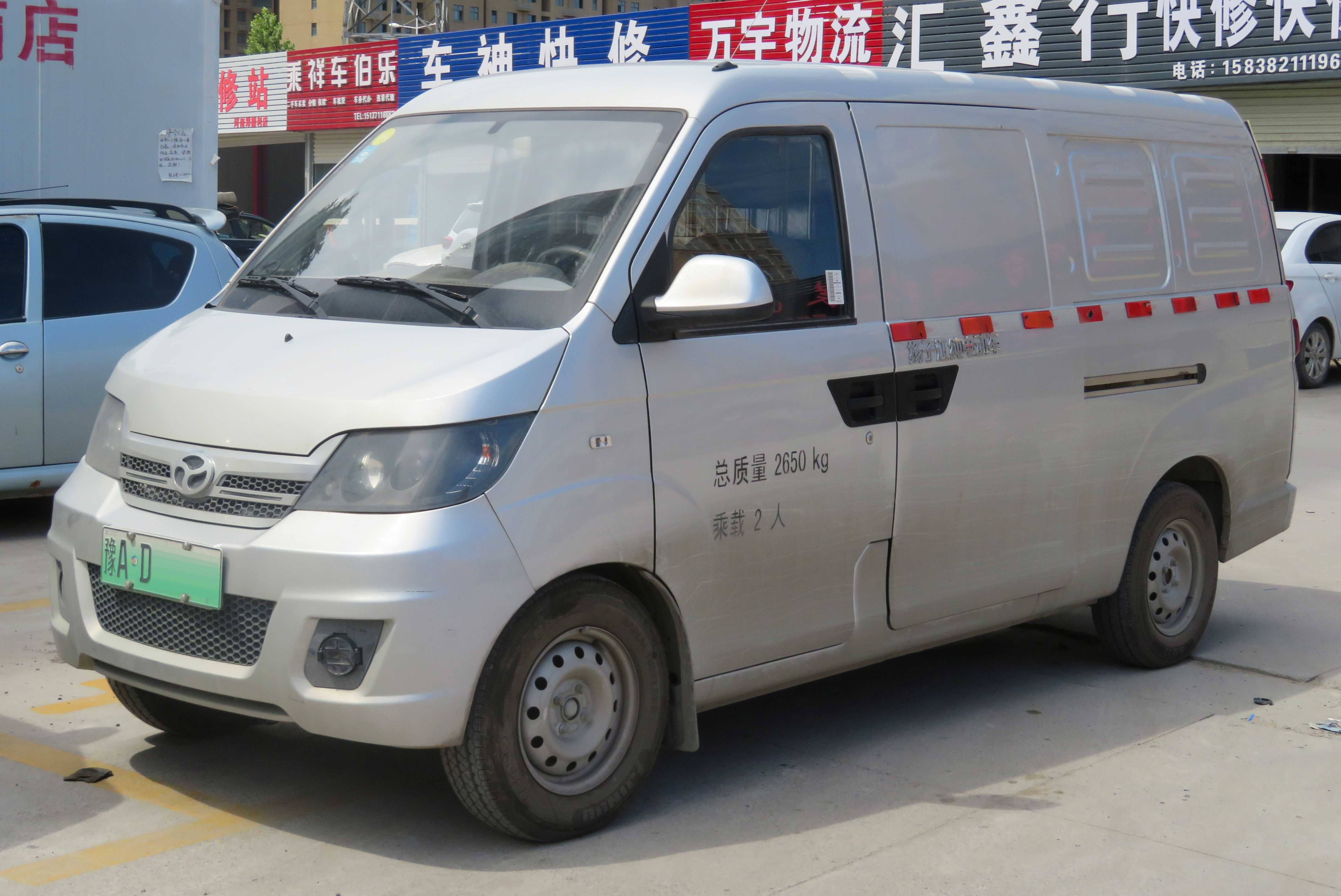 Photographed in Zhengzhou, Henan province, China